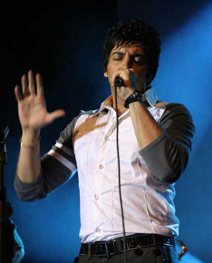 Farzad Farzin at a concert Milad Tower in Tehran on 10 May 2010.